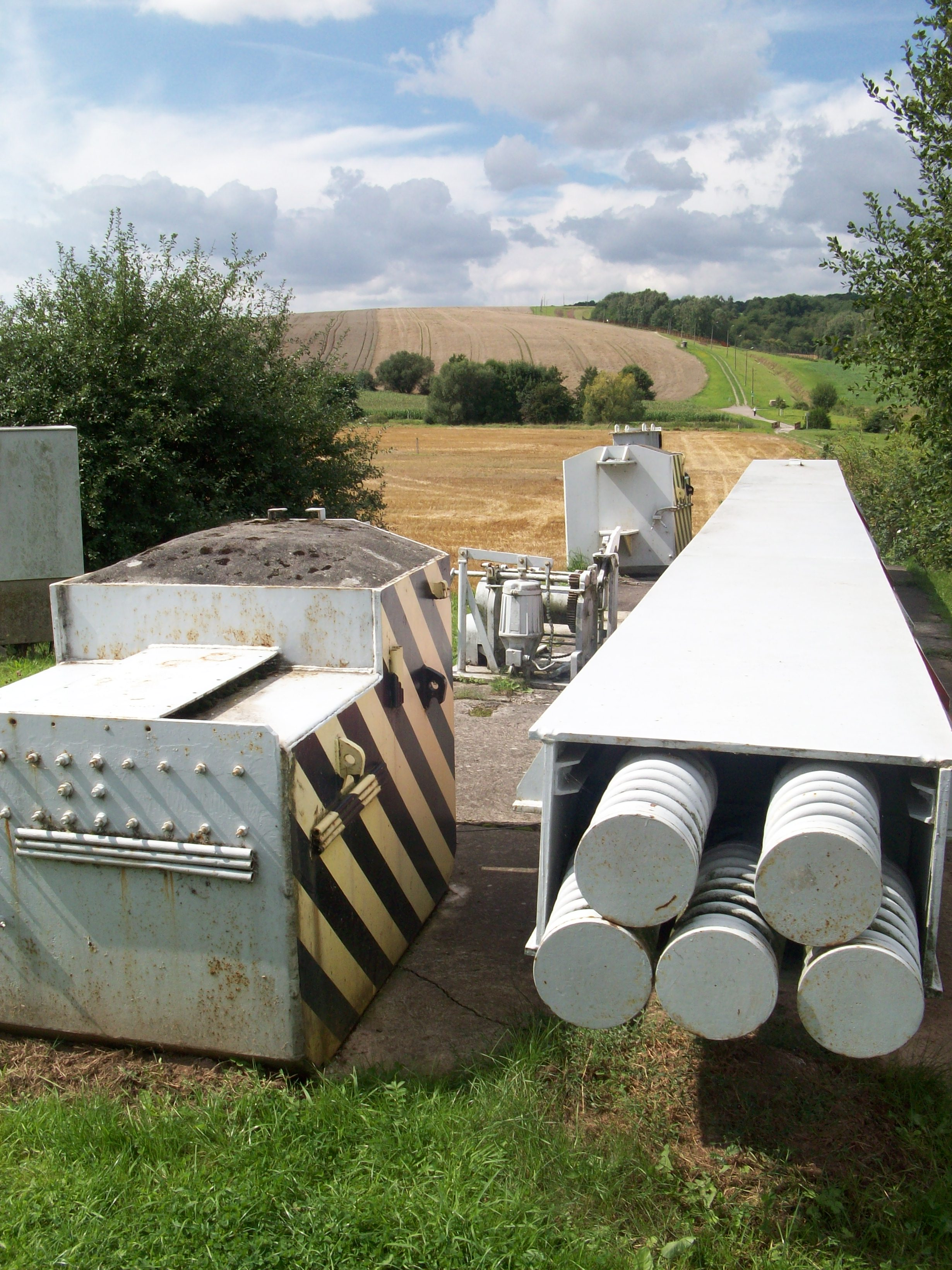 Border barrier on the border of the former East German in Teistungen